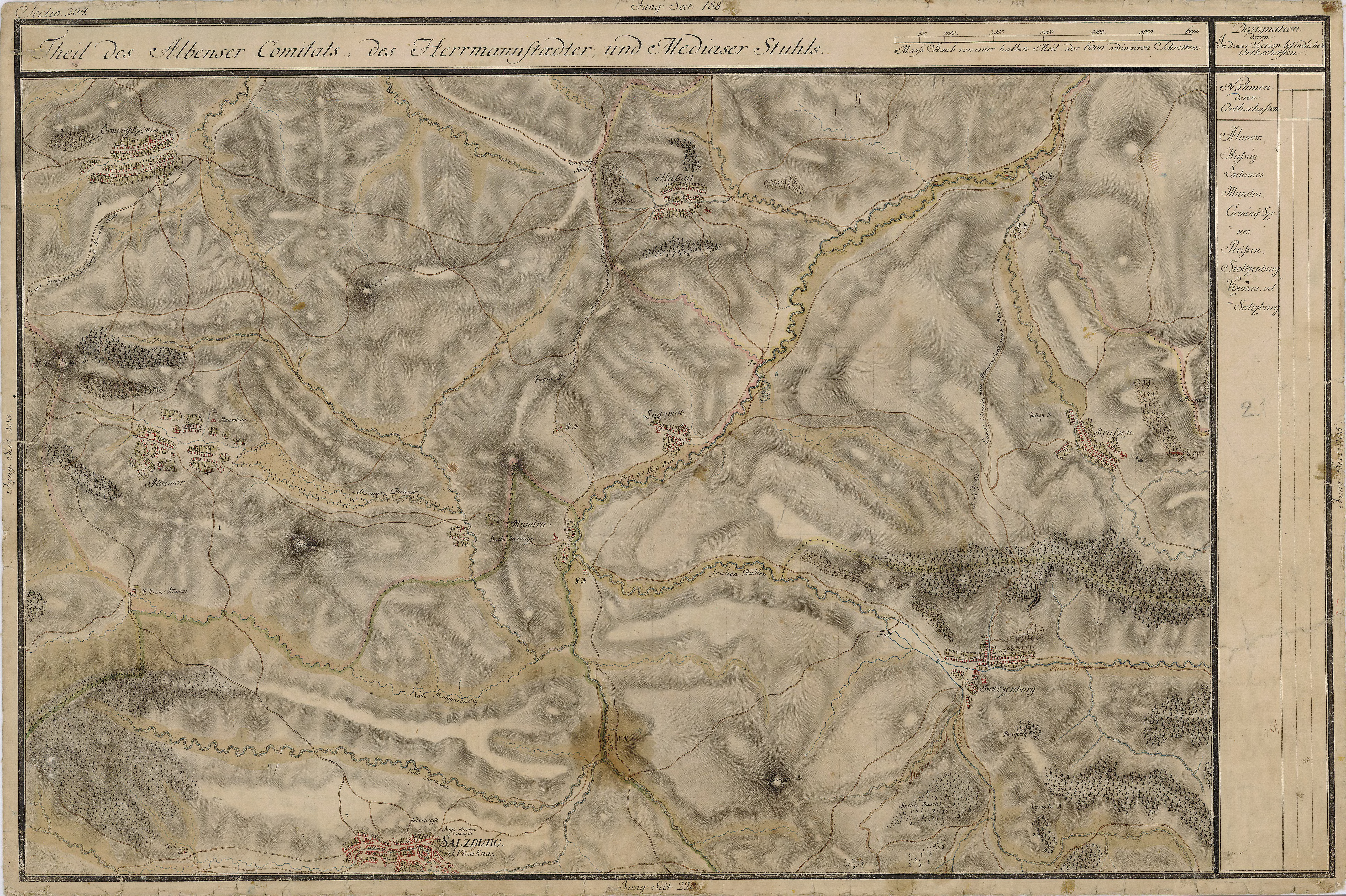 Grand Duchy of Transylvania, 1769-1773. Josephinische Landaufnahme pg.204